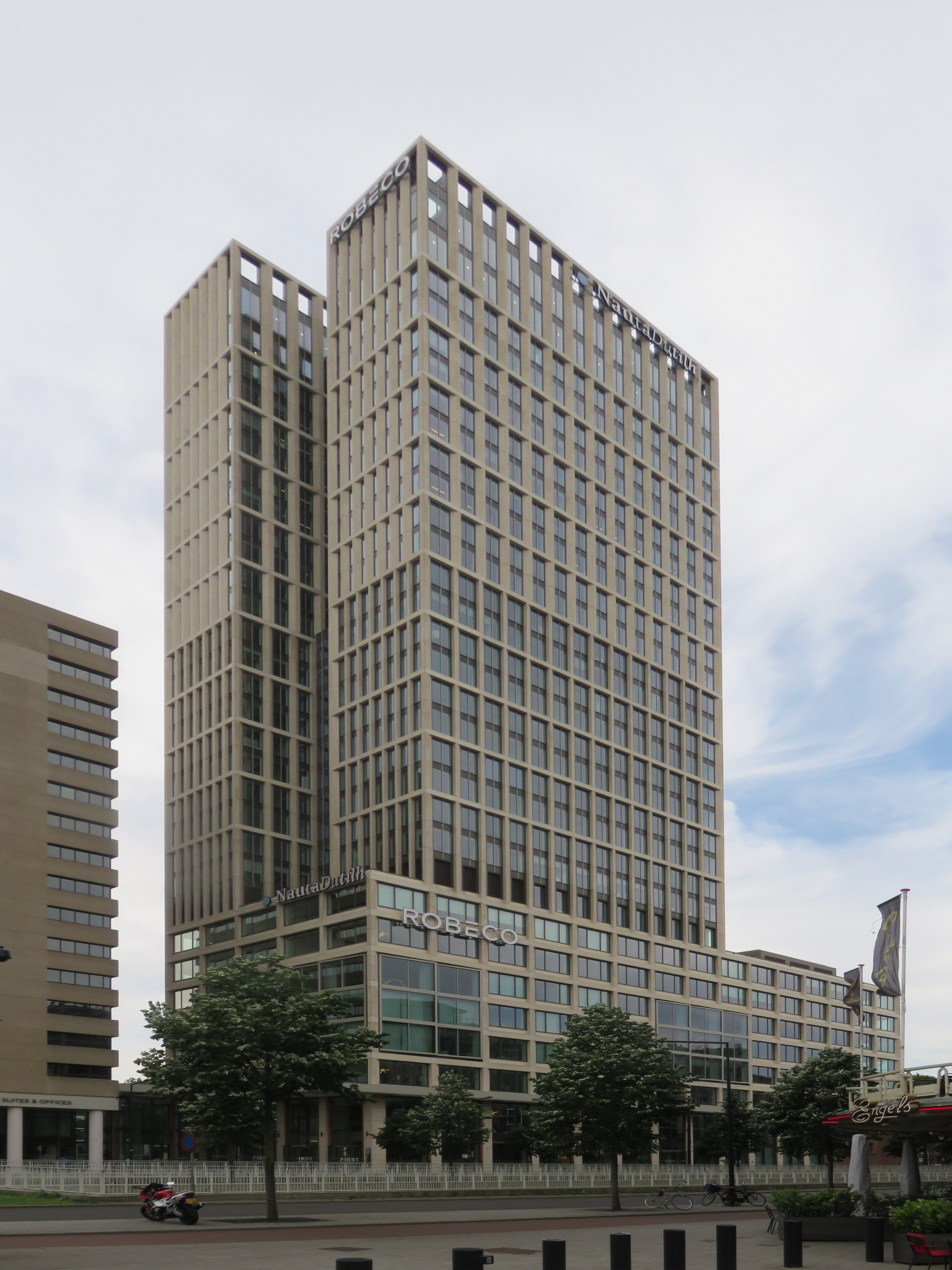 FIRST Rotterdam complex, 2019